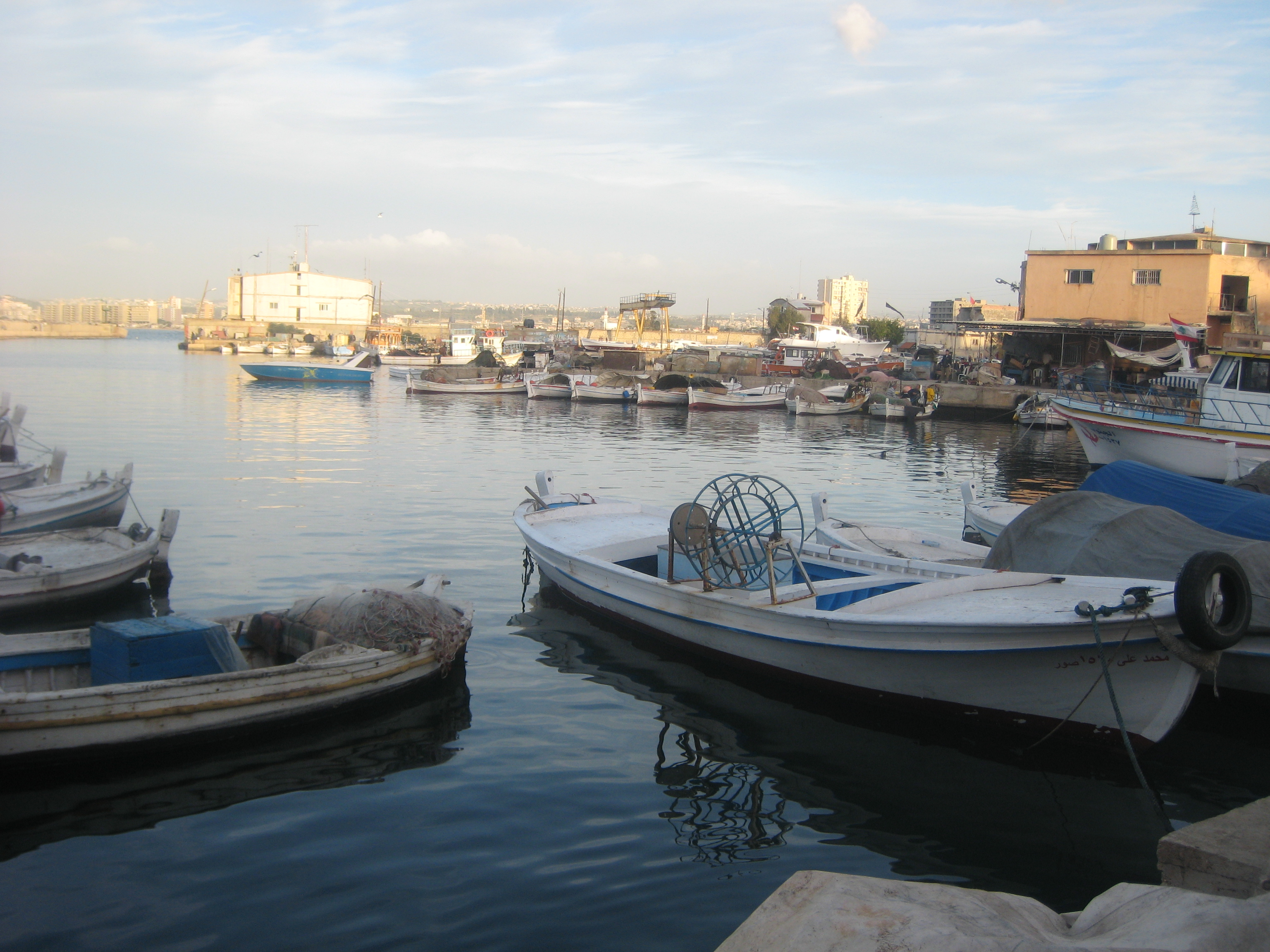 Fishing habour in Tyre